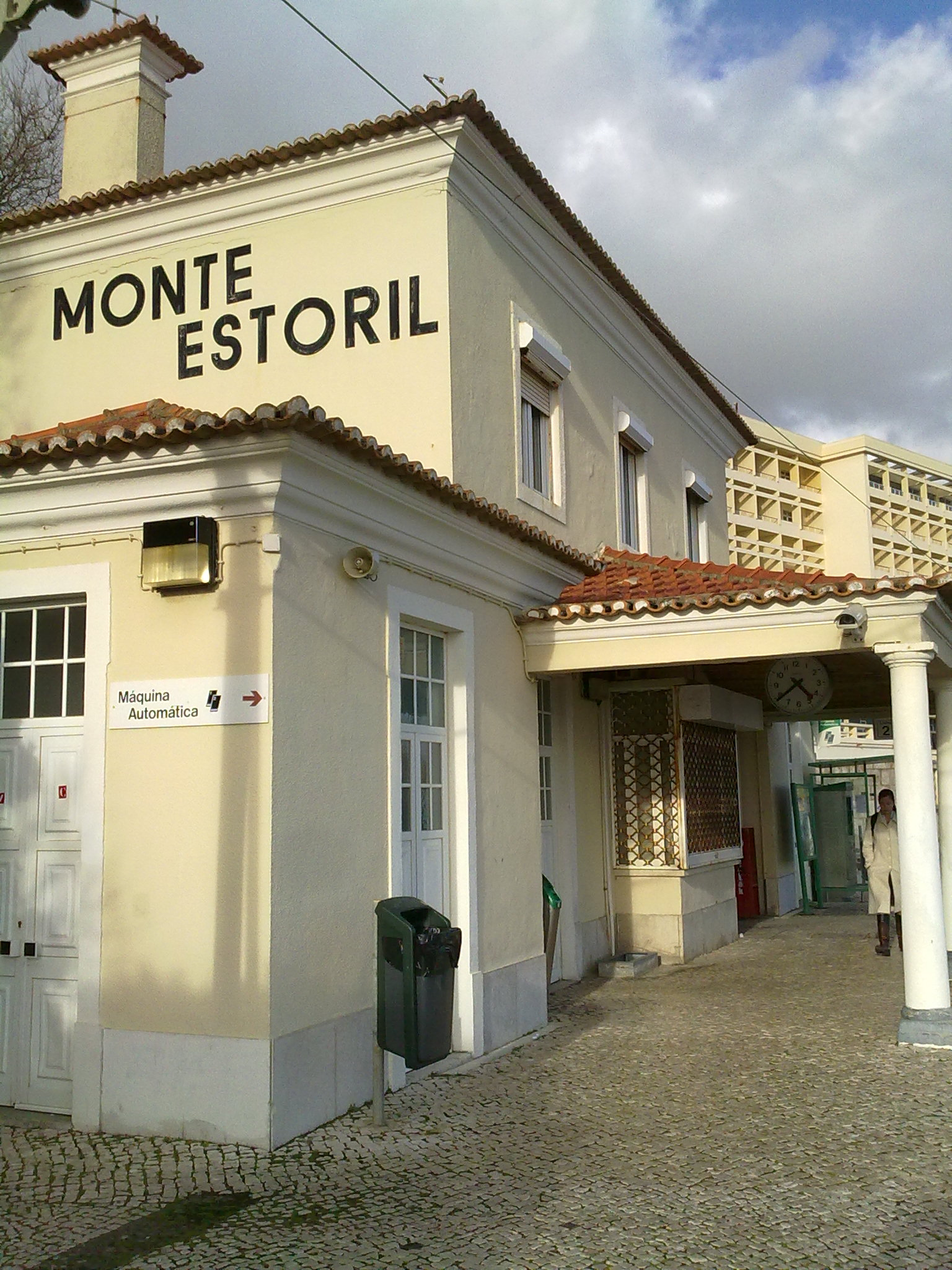 Monte Estoril train station, Portugal.